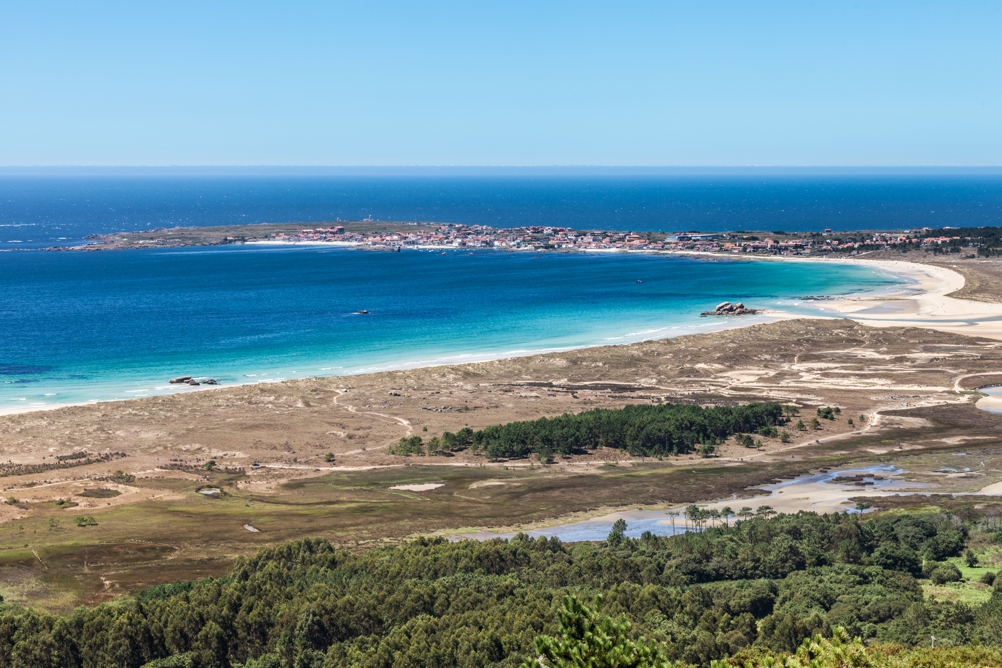 Corrubedo and beach of Corrubedo. Ribeira. Galicia (Spain)